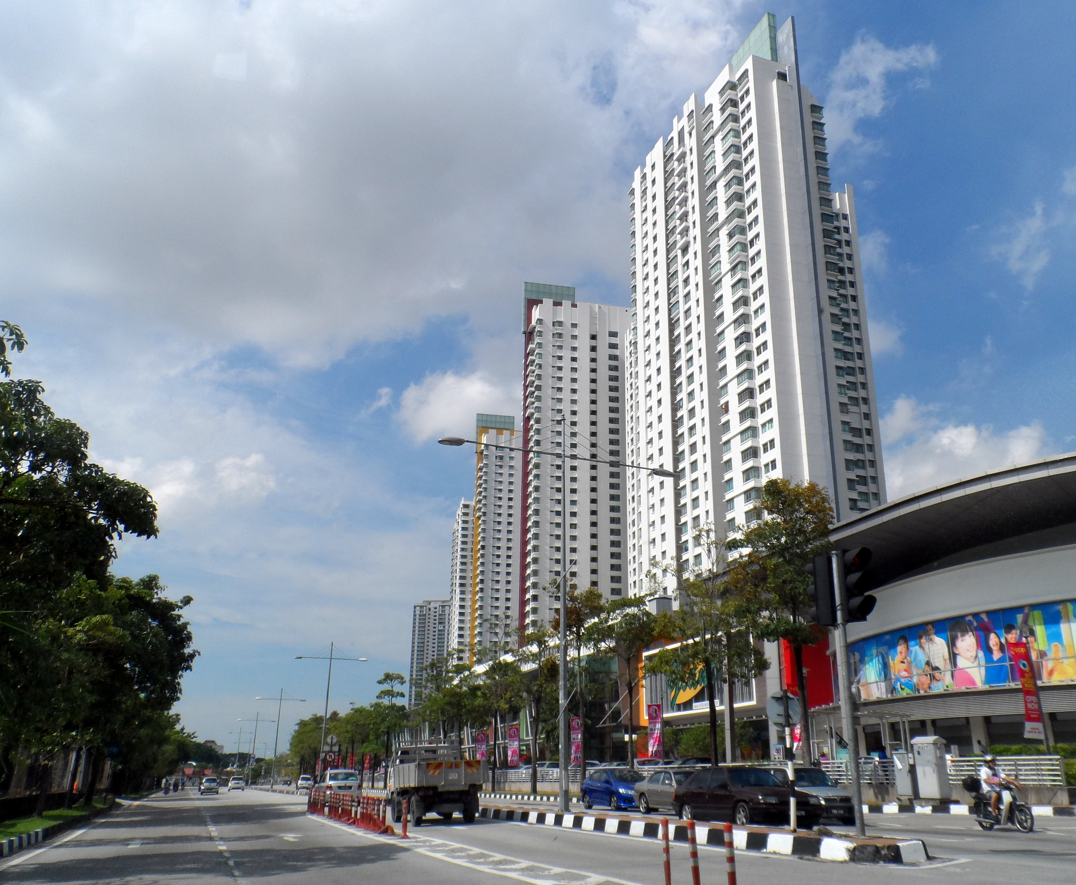 All Seasons Place mall at Air Itam, George Town, Penang